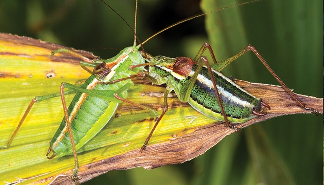 Isophya dochia males.